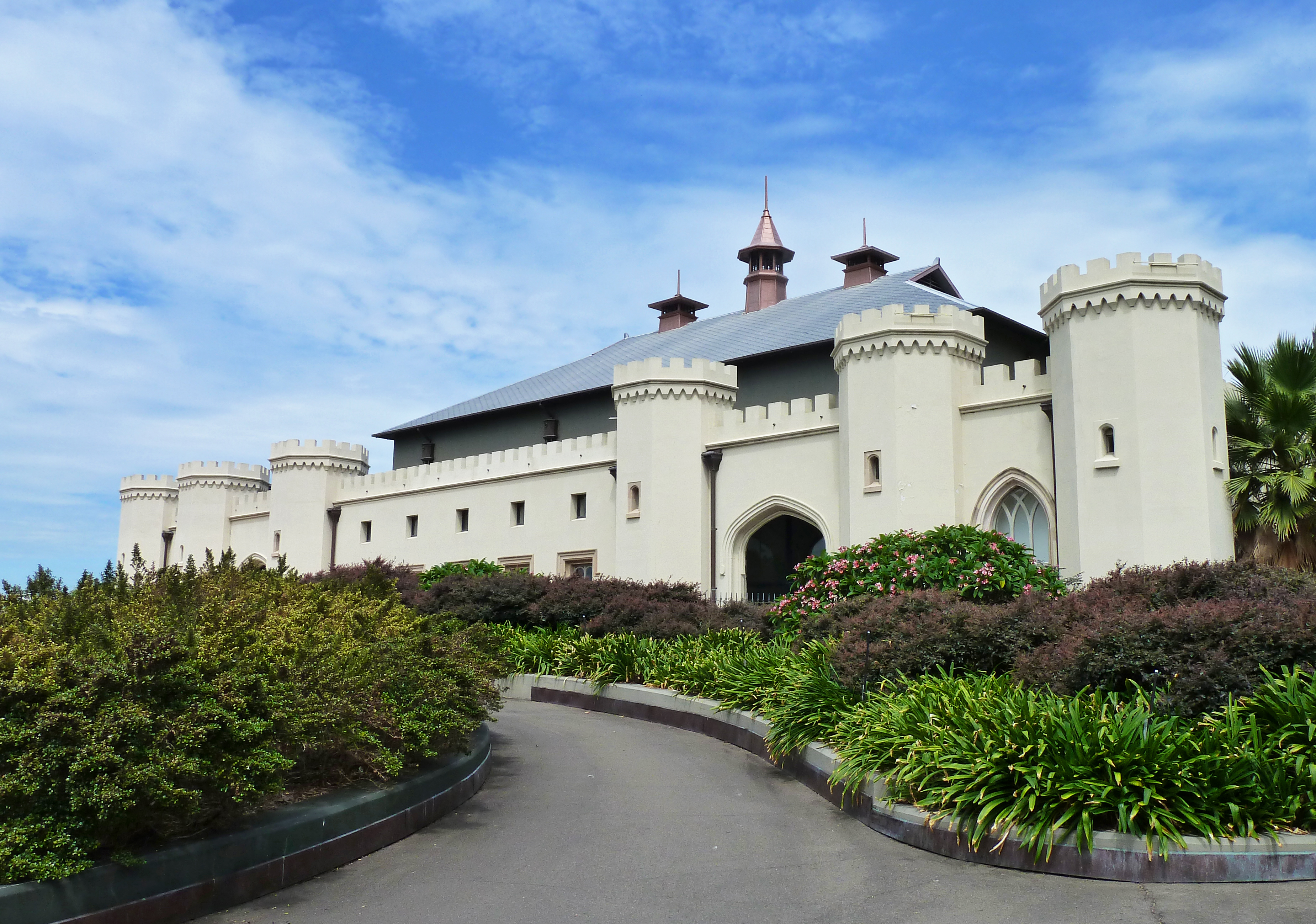 Sydney Conservatorium of Music, Conservatorium Road, Sydney, New South Wales, Australia.